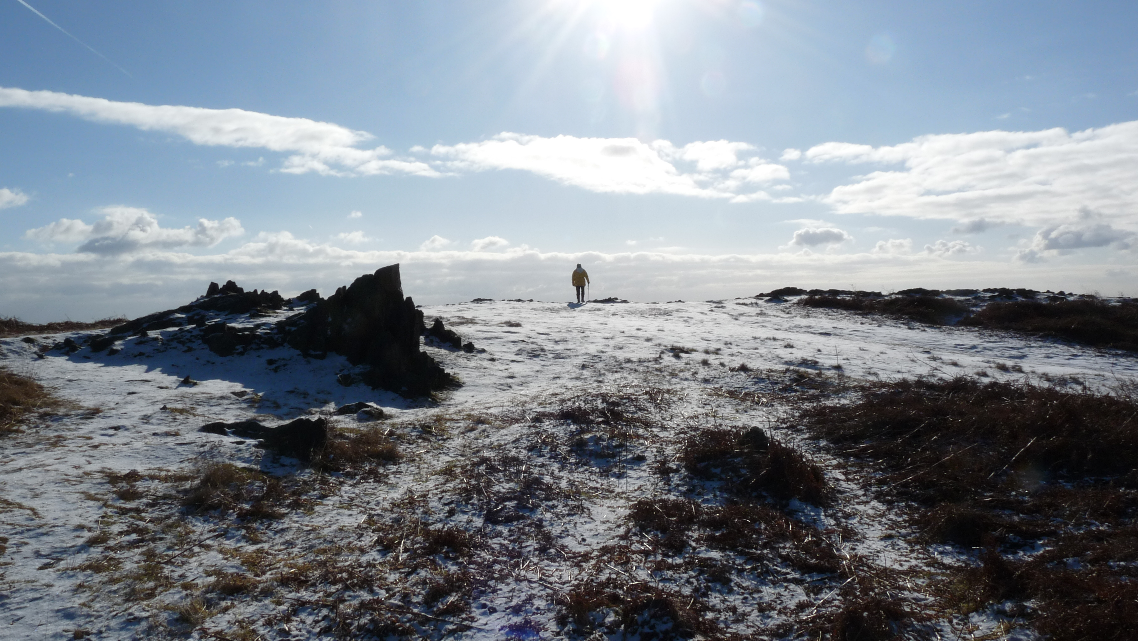 Bradgate Park, Leicestershire, sunshine across a frozen winter landscape.